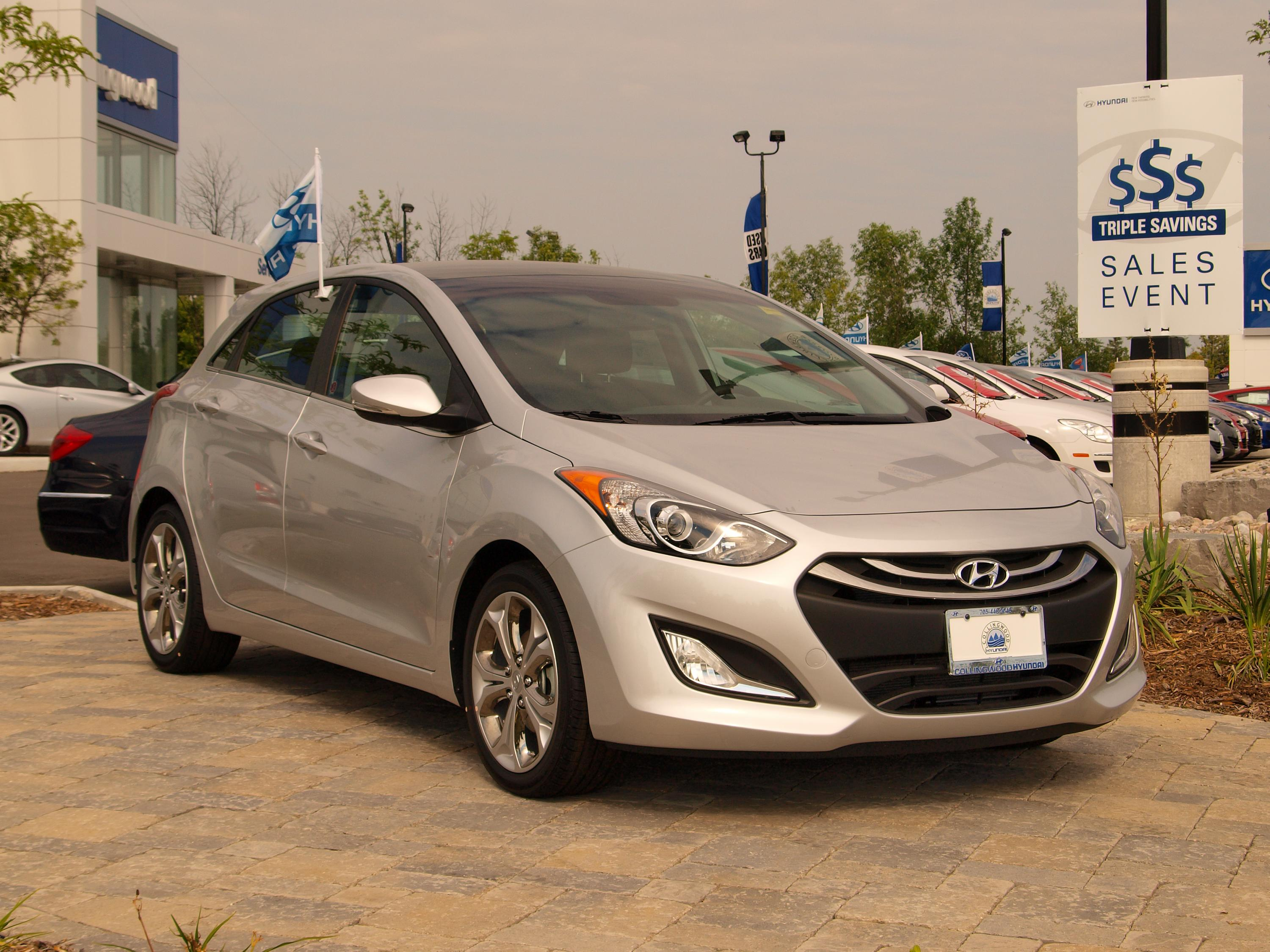 This is the newly redesigned 2013 Hyundai Elantra GT 5 door hatchback that will replace the Touring. Quite nice! Great timing as the Elantra Sedan won the Canadian Car of the year Award!